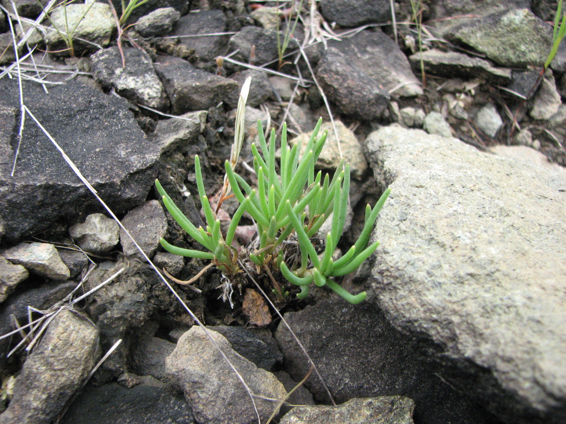 Phemeranthus teretifolius growing on serpentine barrens, Nottingham County Park, Nottingham, Pennsylvania.